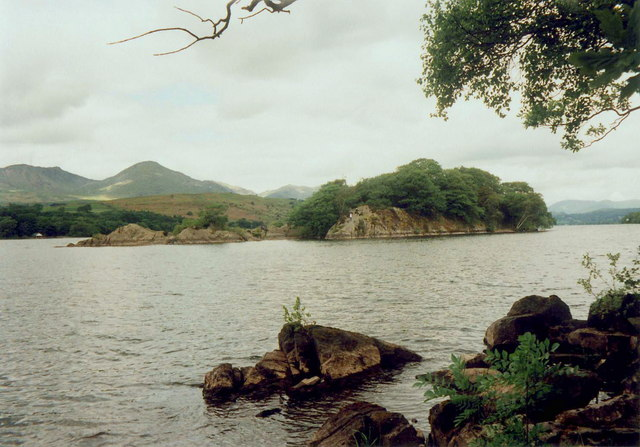 Peel Island ("Wild Cat Island" from Swallows and Amazons), Coniston, Cumbria